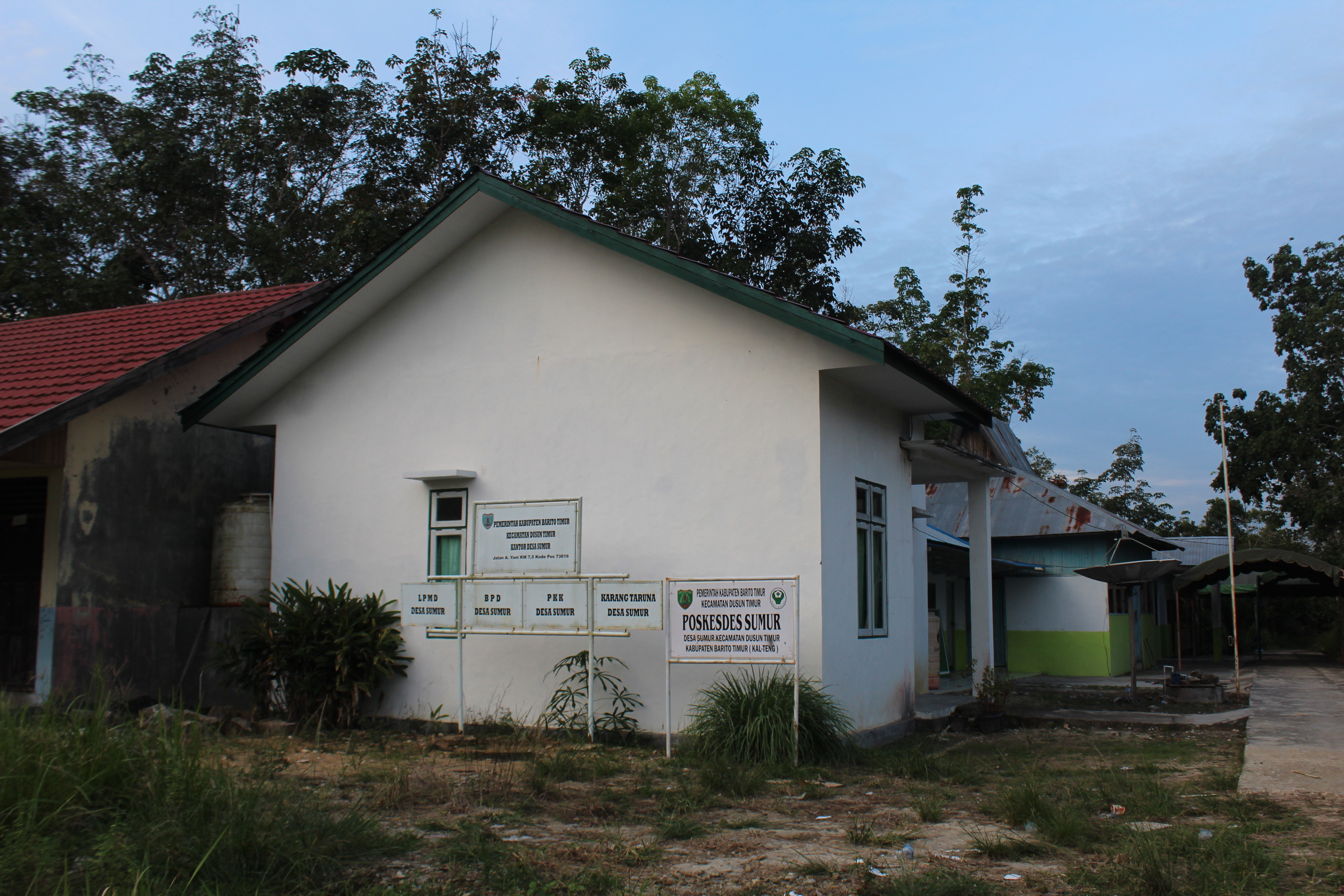 Sumur village office in East Dusun subdistrict, East Barito Regency, Central Kalimantan, Indonesia.